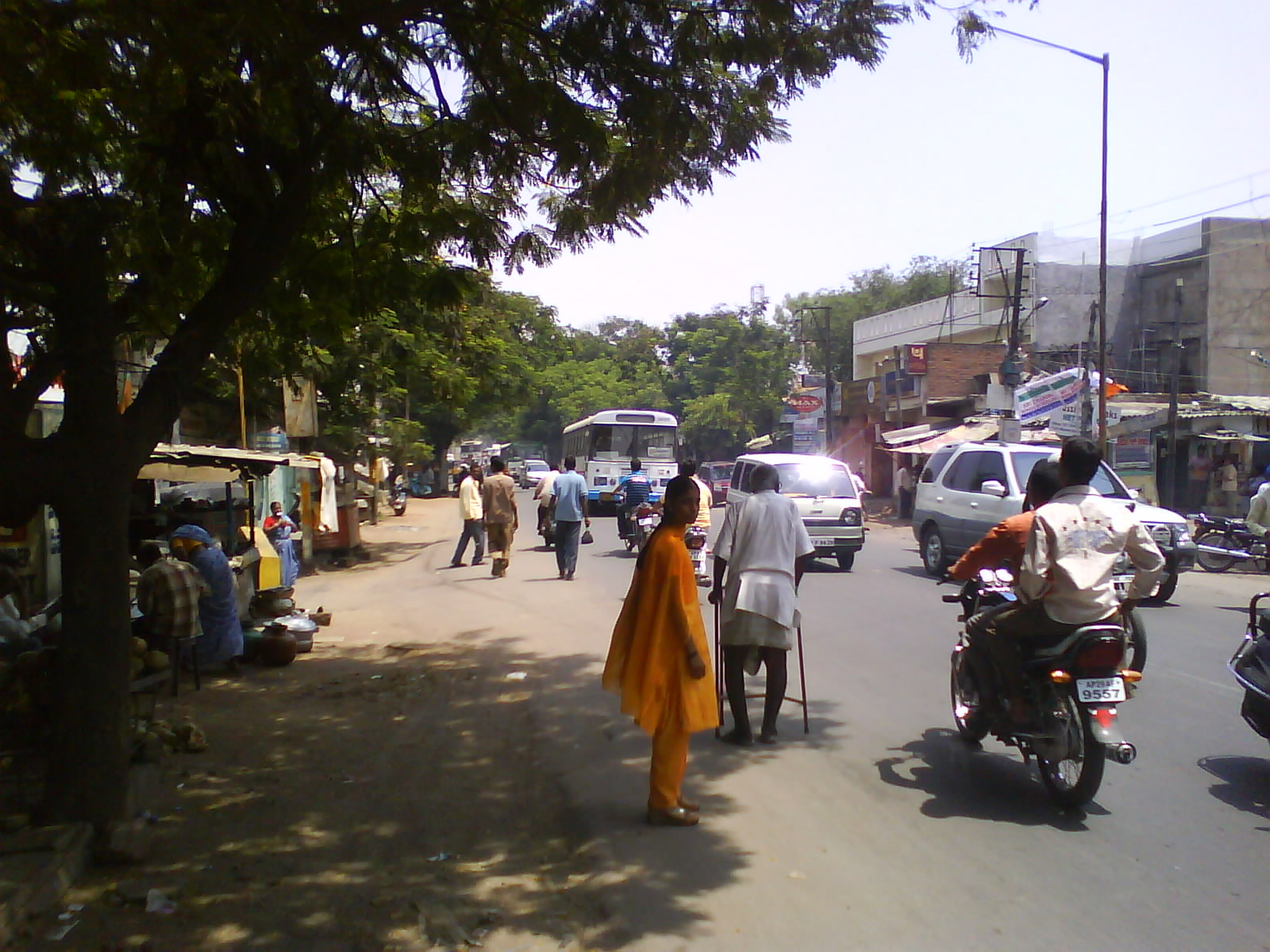 Main Road, Saidabad , Hyderabad, India This is the picture of Saidabad main road.